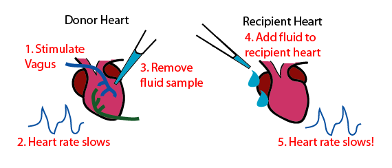 Part 2 of Loewi's experiment describing the existence of Vagusstoff. Drawn by me.